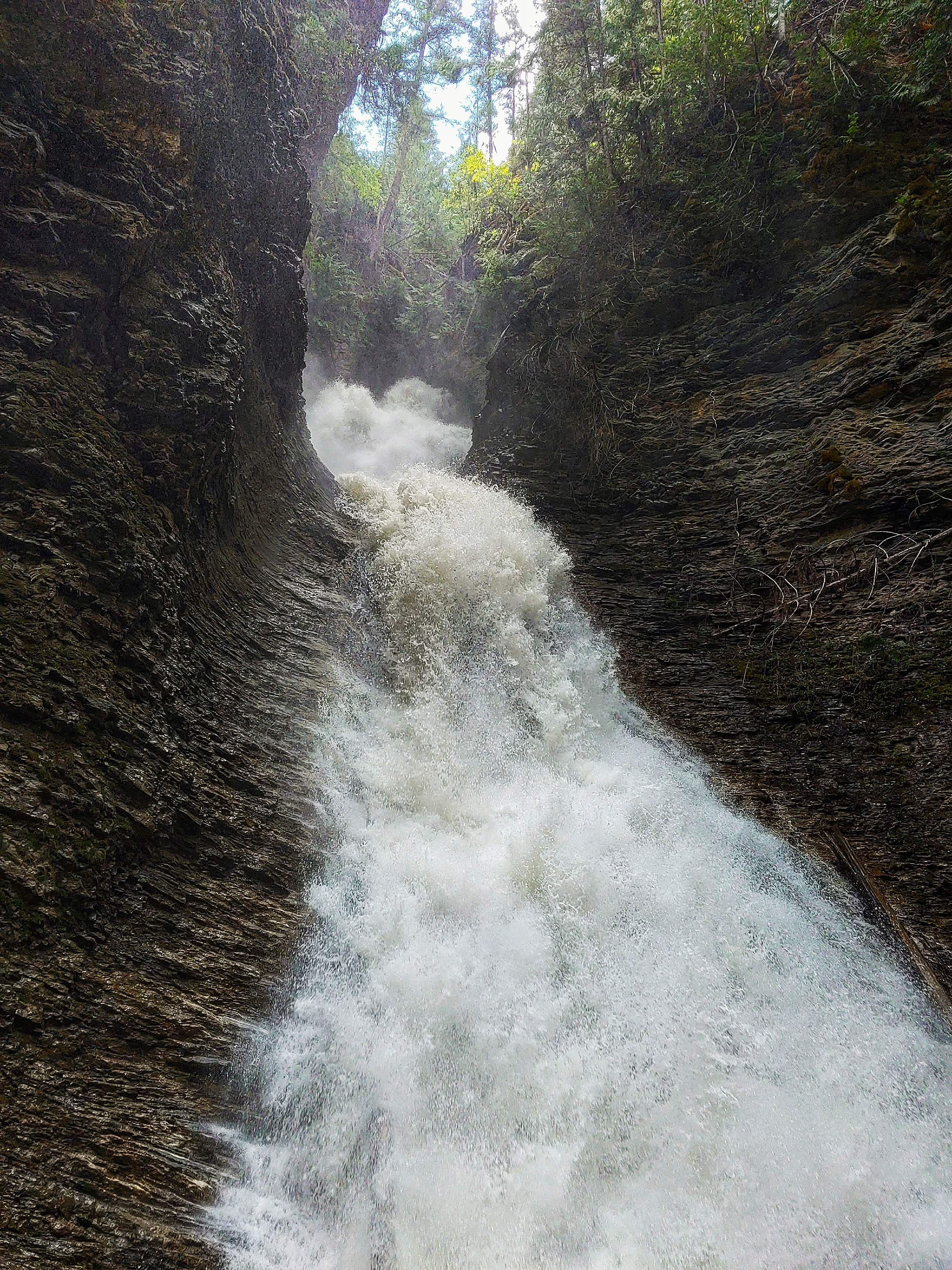 Margaret falls in Sunnybrae, BC